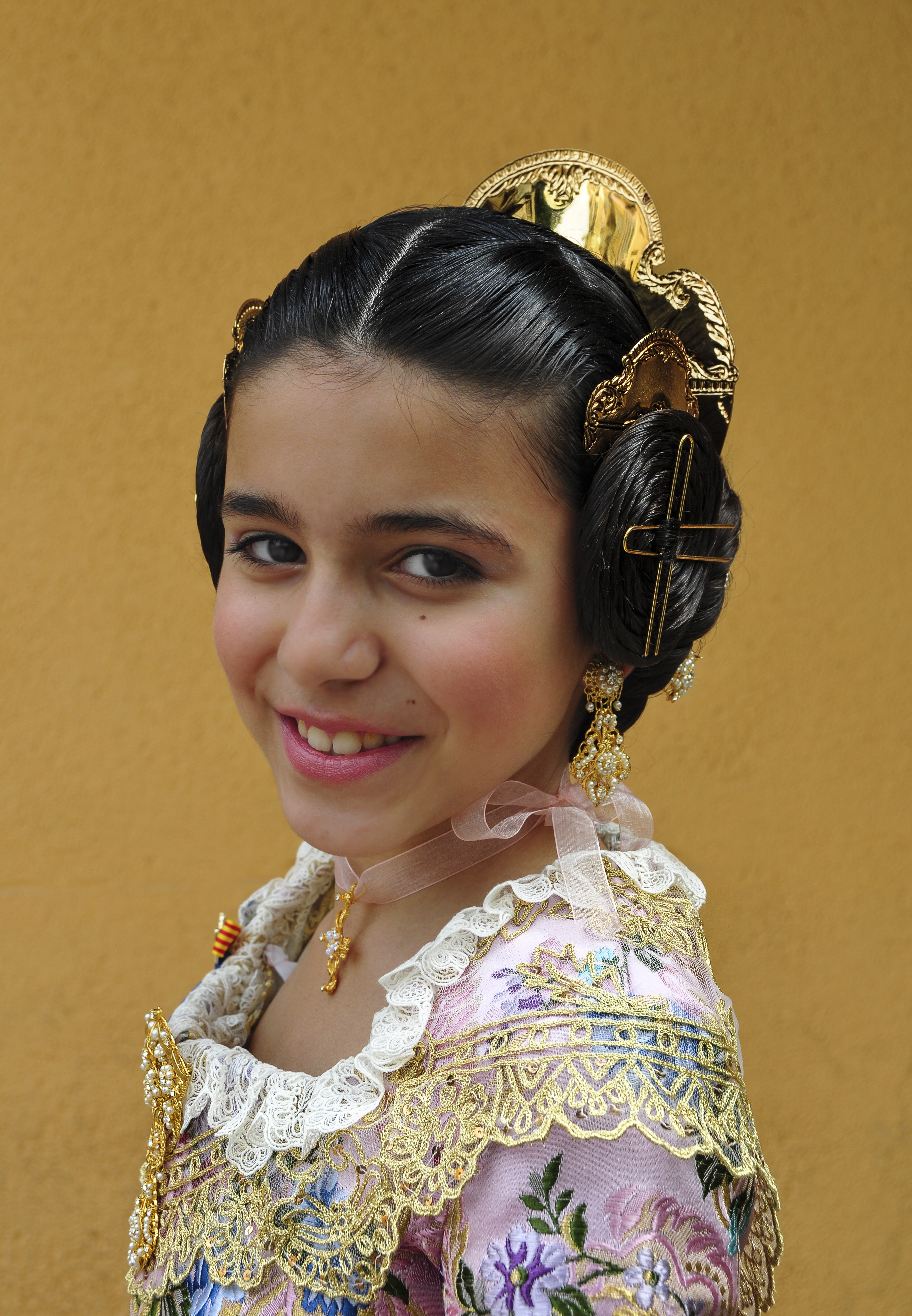 Las Fallas, Valencia Spain Spring Festival, the building and burning of the Falla 15th to 19th March. Europe's largest and longest street party, an exuberant, anarchic, round the clock swirl of fireworks, music, explosions and fire that brings an estimated two million visitors to the city. The more than 350 fallas are giant sculptures of papier maché and wood. They satirise celebrities and politicians and local customs. The cremà after midnight on 19th March is when every falla goes up in flames except for one small ninot.